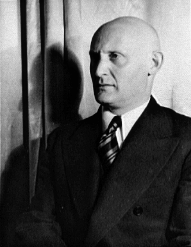 Israel Joshua Singer Portrait of Israel Joshua Singer